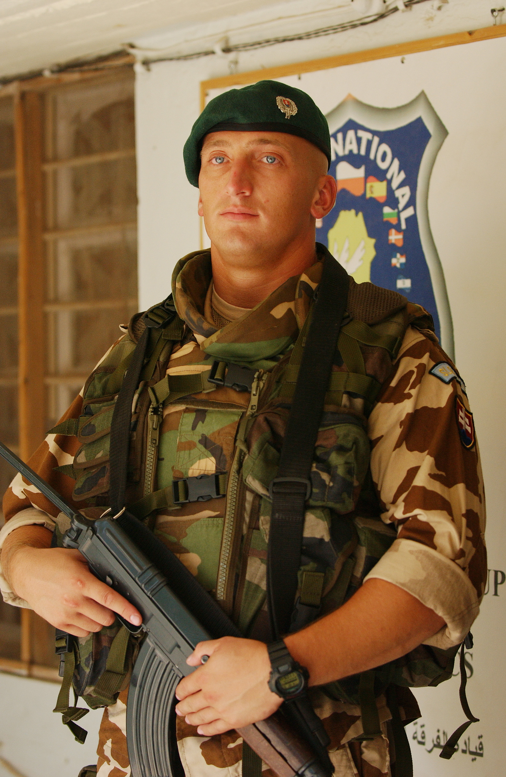 A Slovakian army soldier stands guard in front of the Multinational Division-Central South headquarters at Camp Echo, Iraq, Oct. 5, 2006, while Polish army Maj. Gen. Bronislaw Kwiatkowski, the commander of Multinational Division-Central South, and British army Lt. Gen. Graeme Lamb, the deputy commanding general of Multinational Forces-Iraq, conduct a meeting inside.